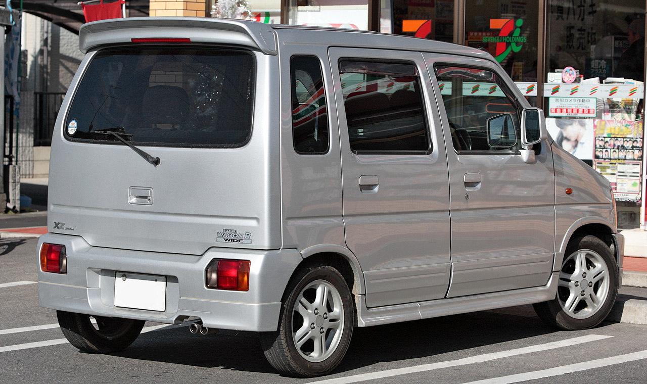 First generation Suzuki Wagon R Wide 1.0 XZ Limited ( Japan spec Wagon R+ )